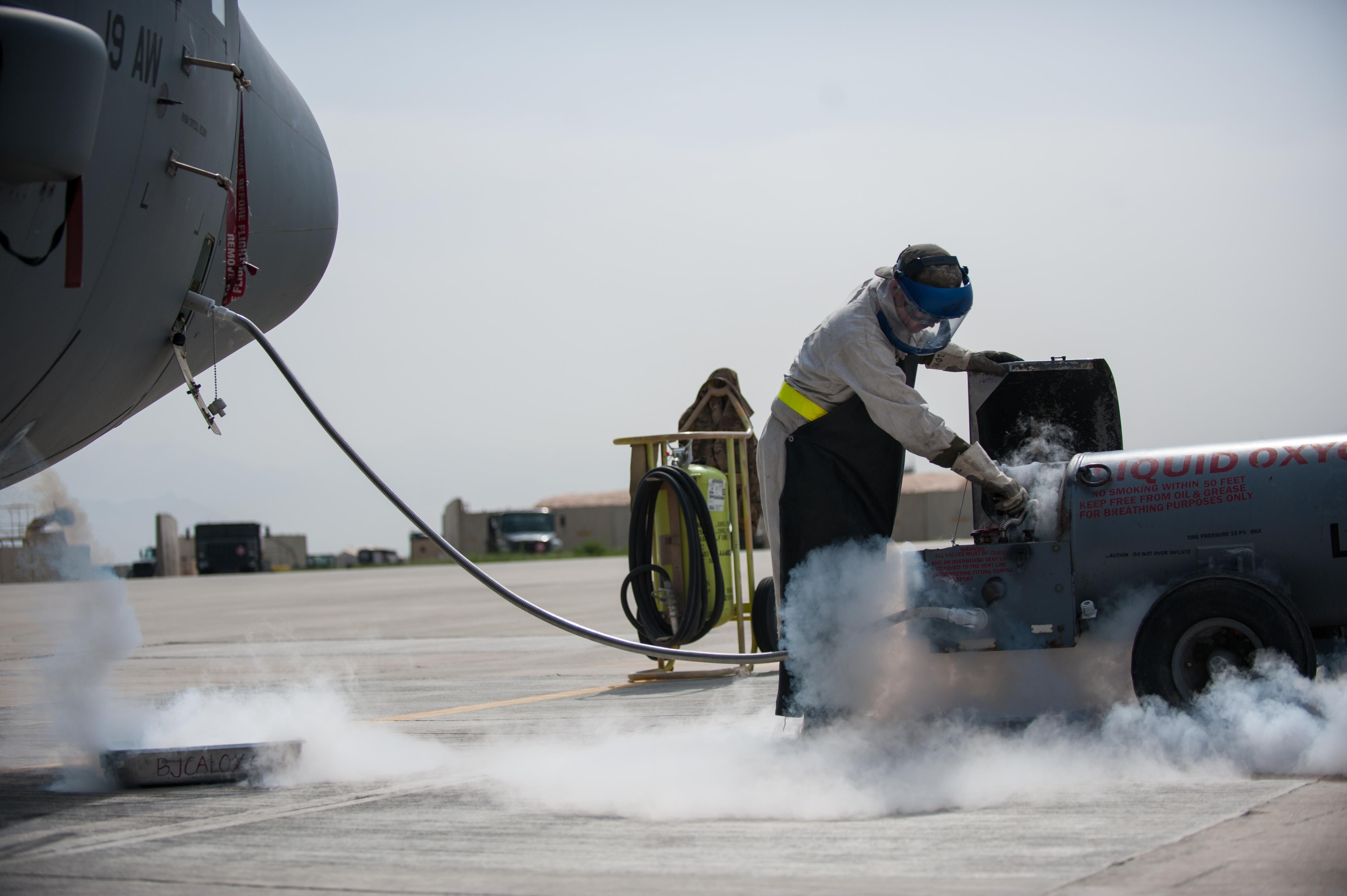 U.S. Air Force Airman 1st Class Ryan Munchel, assigned to the 455th Expeditionary Aircraft Maintenance Squadron, transfers liquid oxygen to an LOX reservoir in a C-130J Super Hercules aircraft on the flight line at Bagram Airfield, Afghanistan, May 5, 2015. The 455th EAMXS ensure Super Hercules on Bagram are prepared for flight and return them to a mission-ready state once they land.